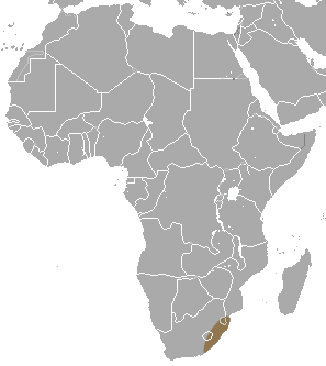 Natal Red Rock Hare (Pronolagus crassicaudatus) range